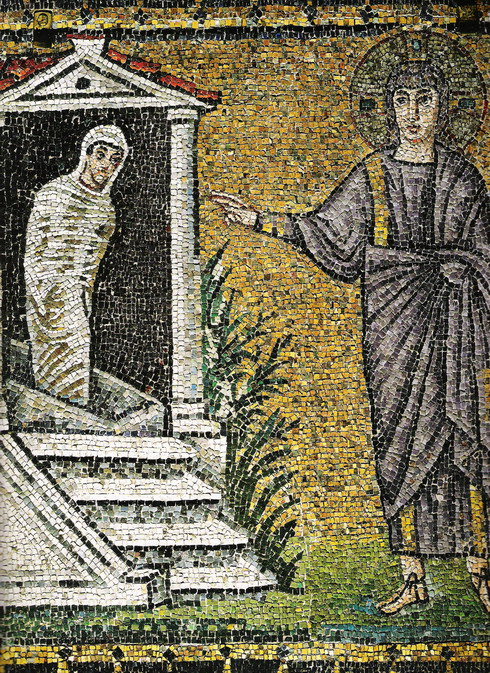 Mosaic in Basilica of Sant'Apollinare Nuovo. It represents Lazarus' resurrection. Christ is represented un a hellenistic style, as a young man, with no beard.